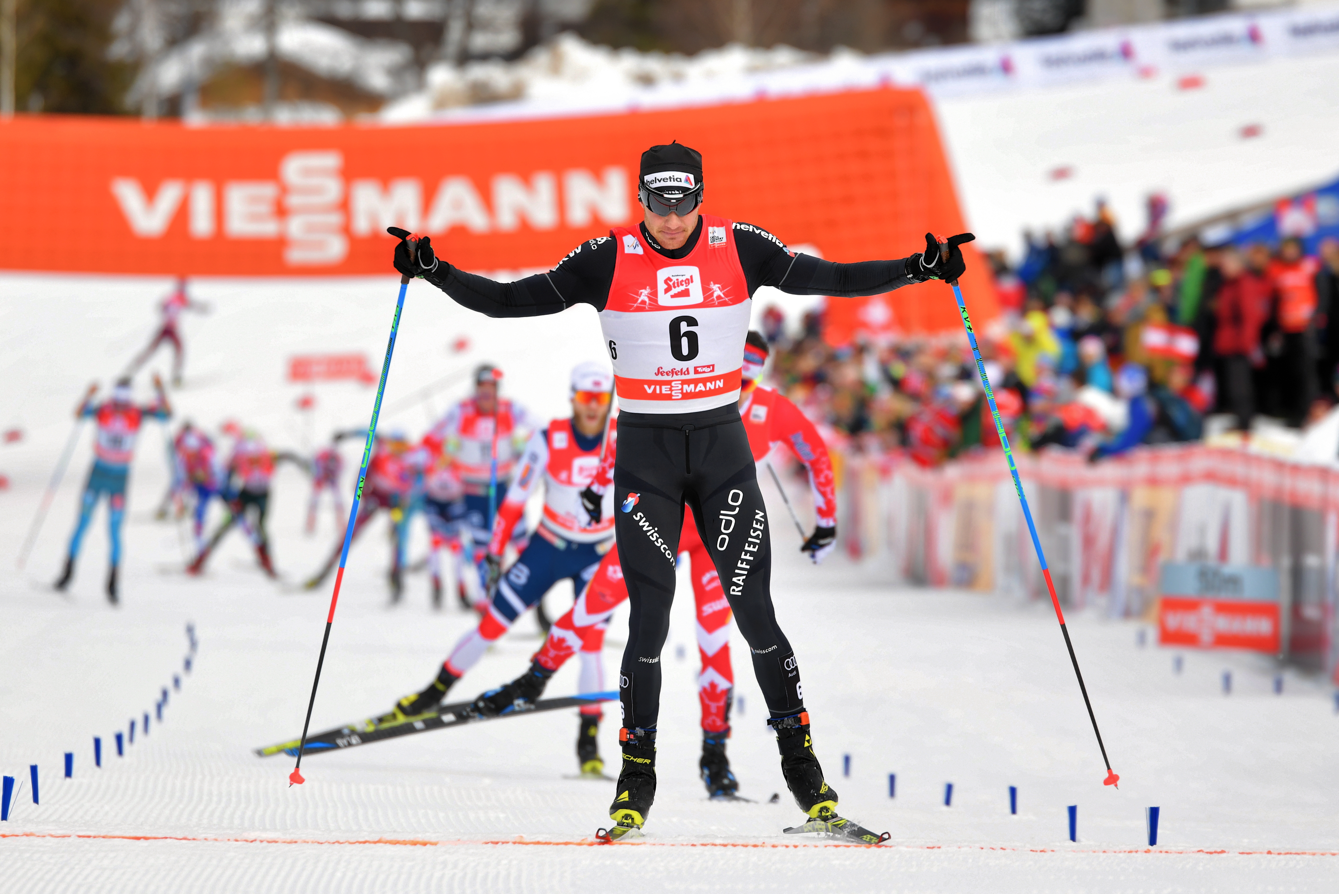 15km mass start men in Seefeld 2018/01/28. Picture shows Dario Cologna winning.